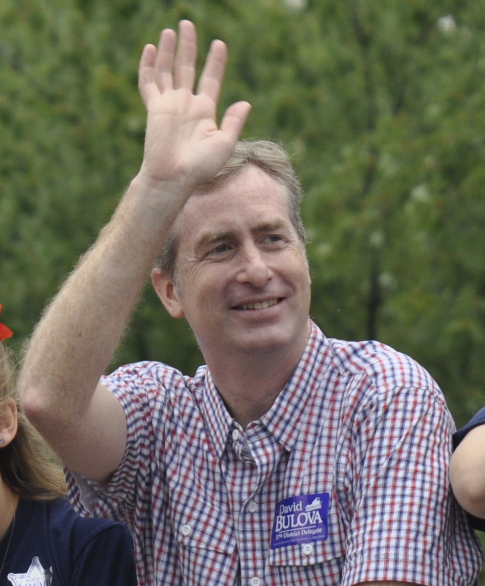 David Bulova at Fairfax City 4th of July Parade